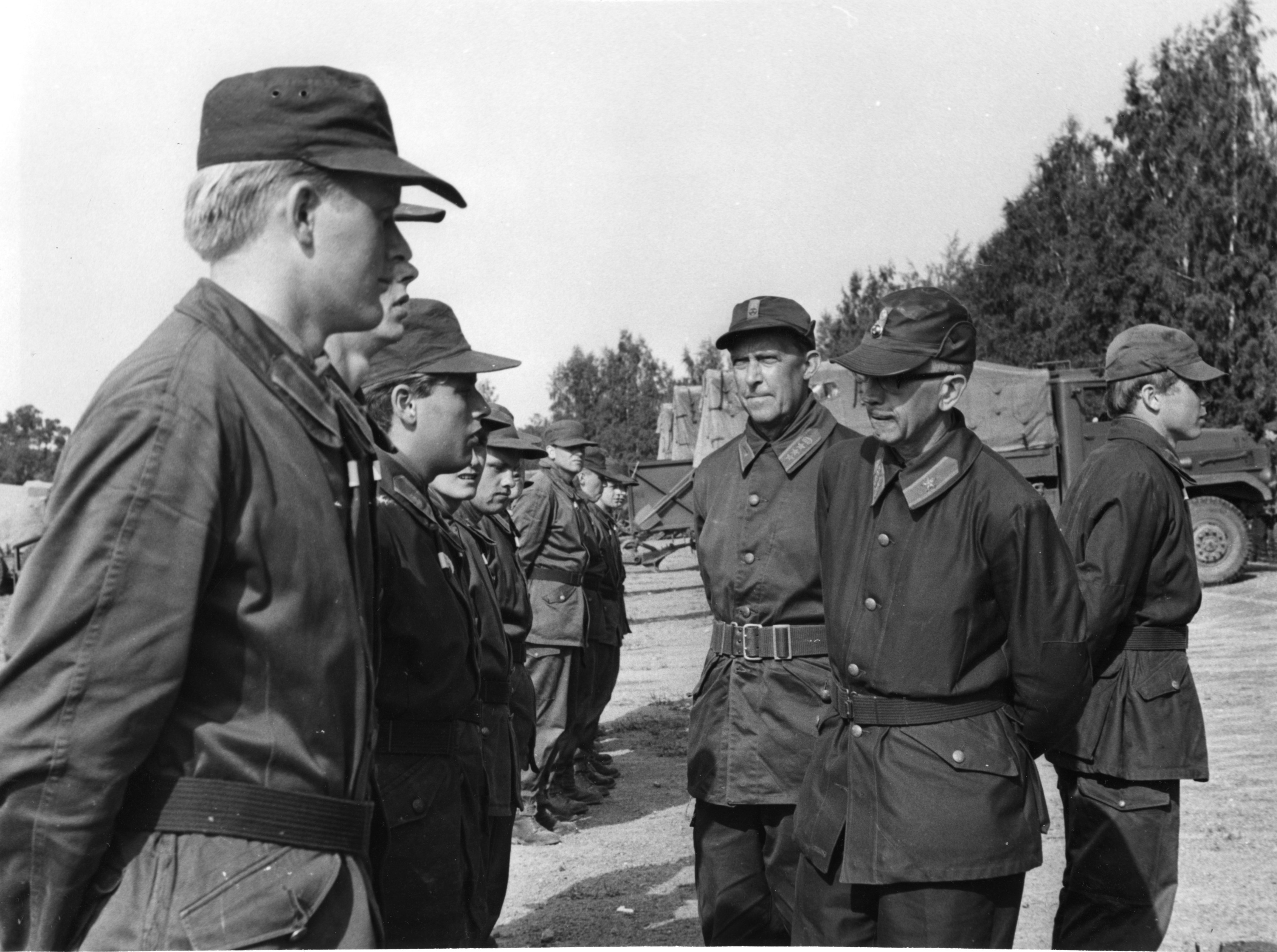 Inspection at Småland Artillery Regiment (A 6). Colonel Sten-Olle Tegmo and the Chief of Staff in the Southern Military District (Milo S), Major General Sigmund Ahnfelt.